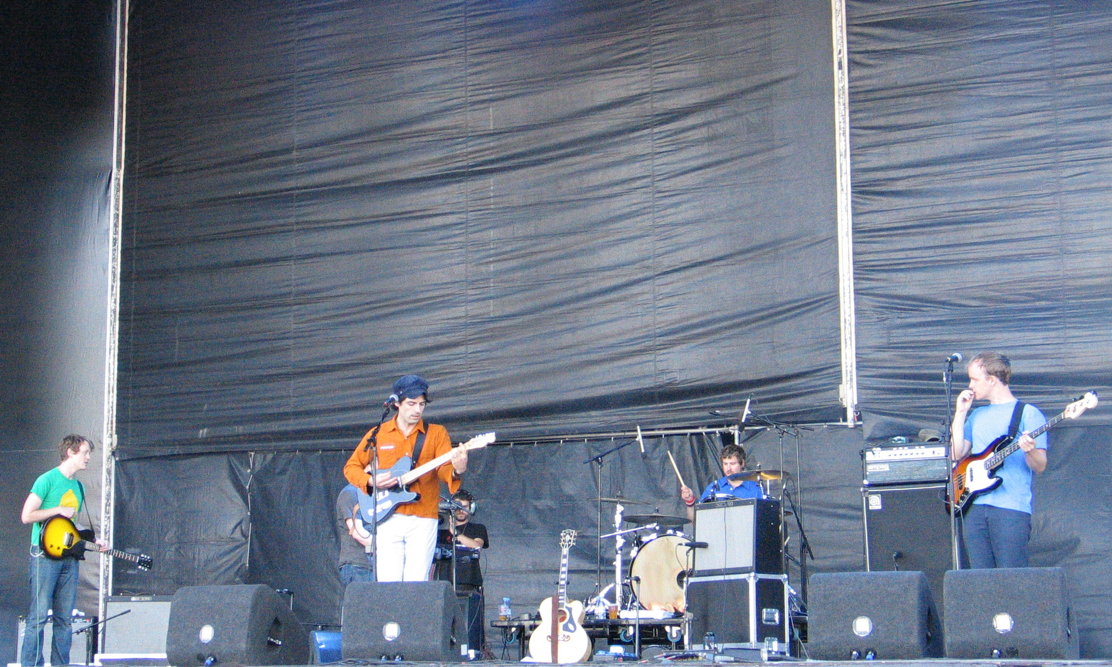 Clap Your Hands Say Yeah at Super Bock Super Rock Festival (Portugal)